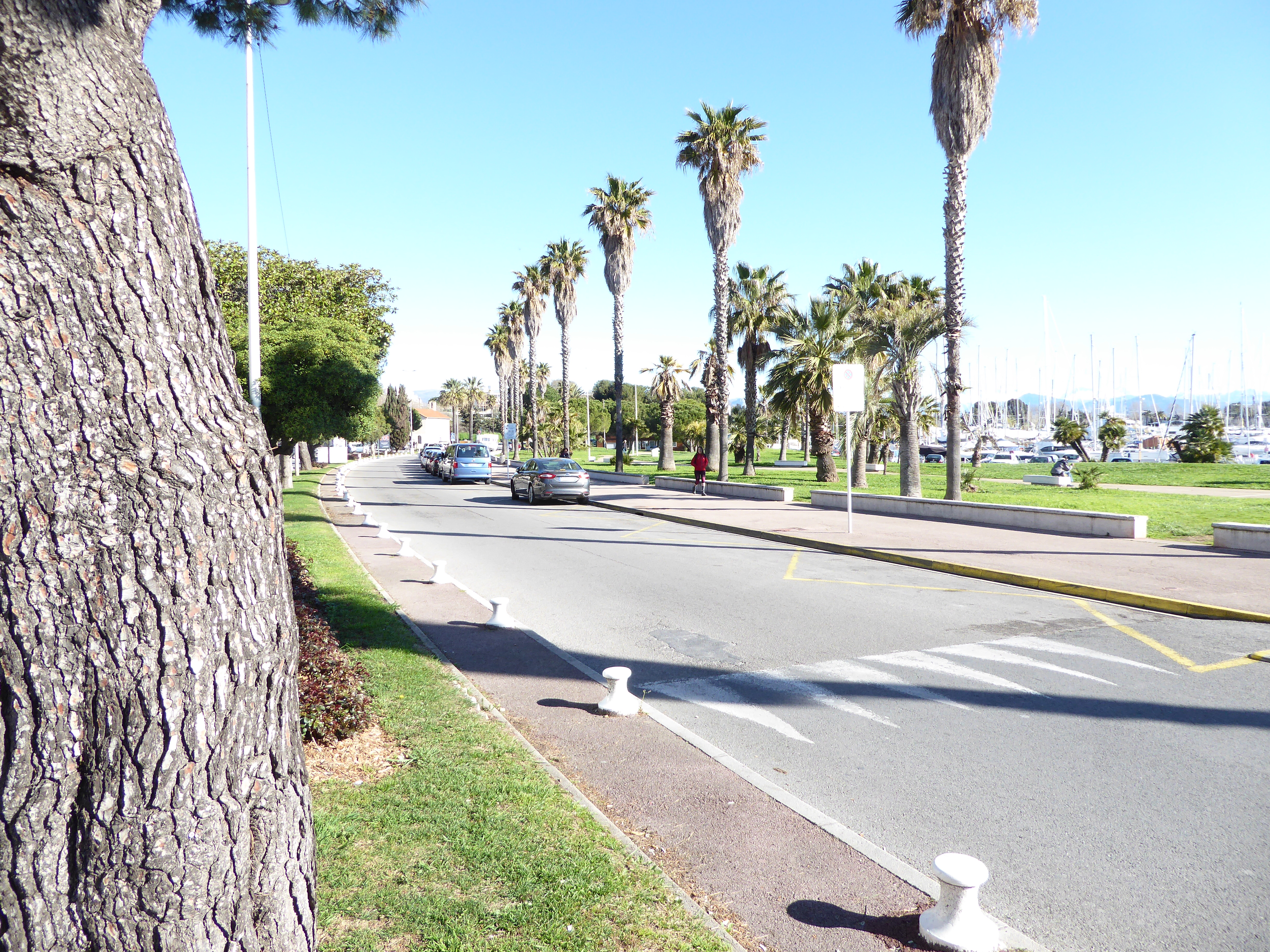 AV XI Nov Antibes